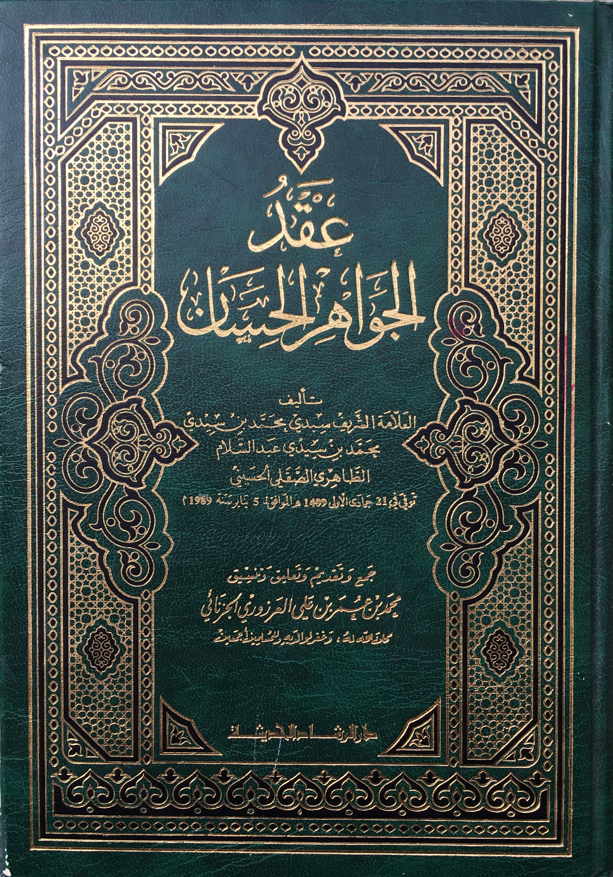 كتاب عقد الجواهرالحسان